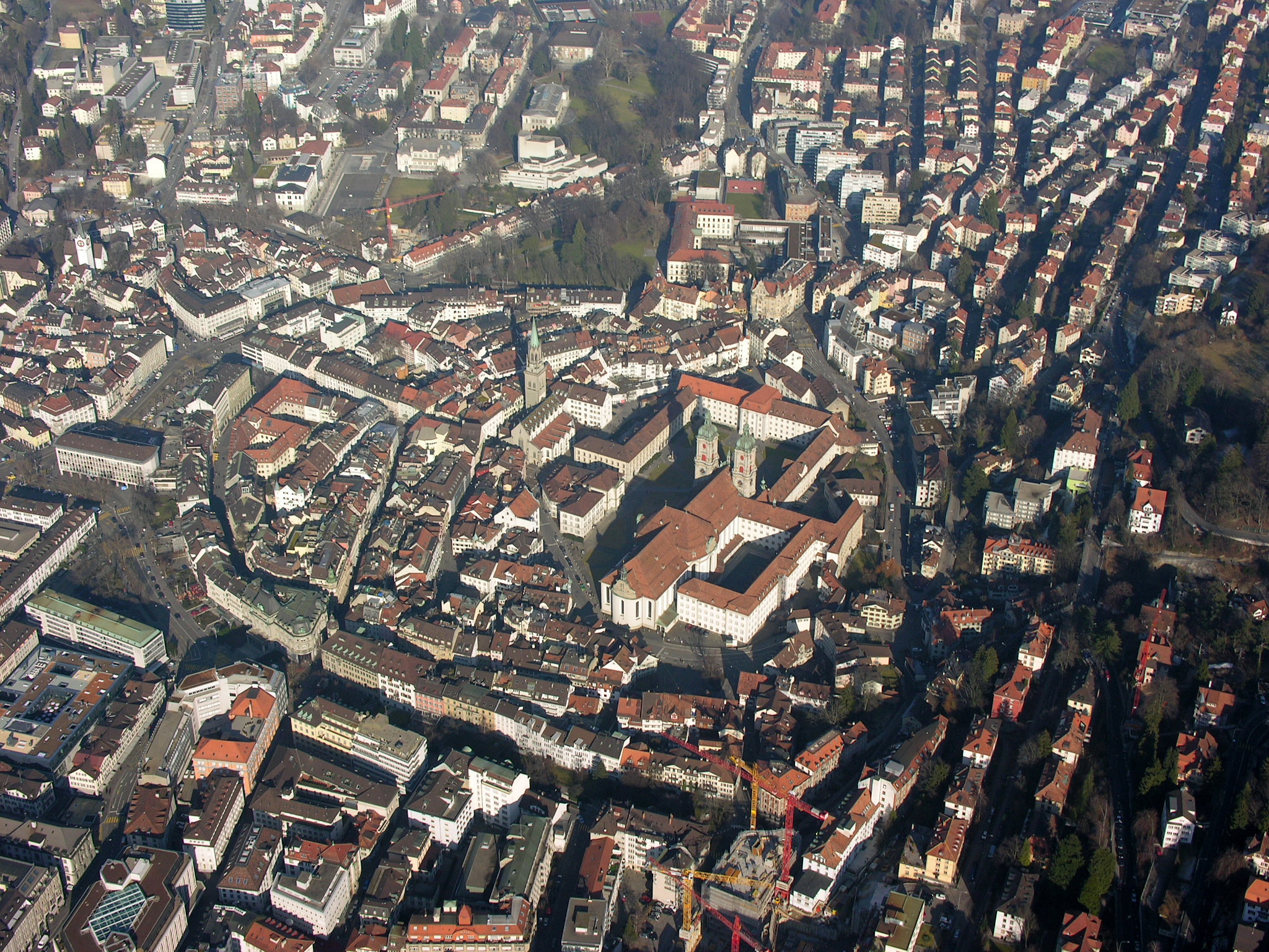 Aerial View of St. Gallen